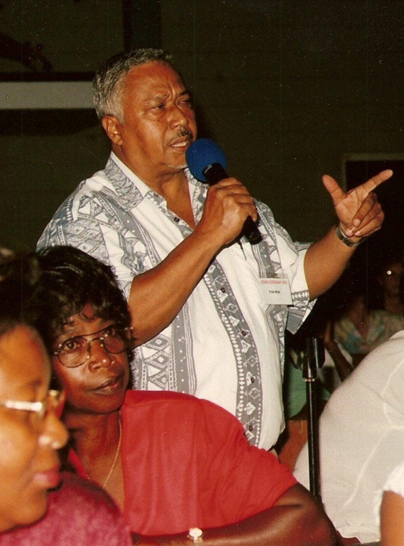 Surname writer Frits Wols at the "Schrijverschap 2000" congress in Paramaribo city.